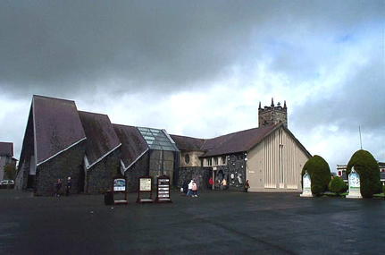 Knock, Co. Mayo, St Joseph at the Shrine Roman Catholic Church.